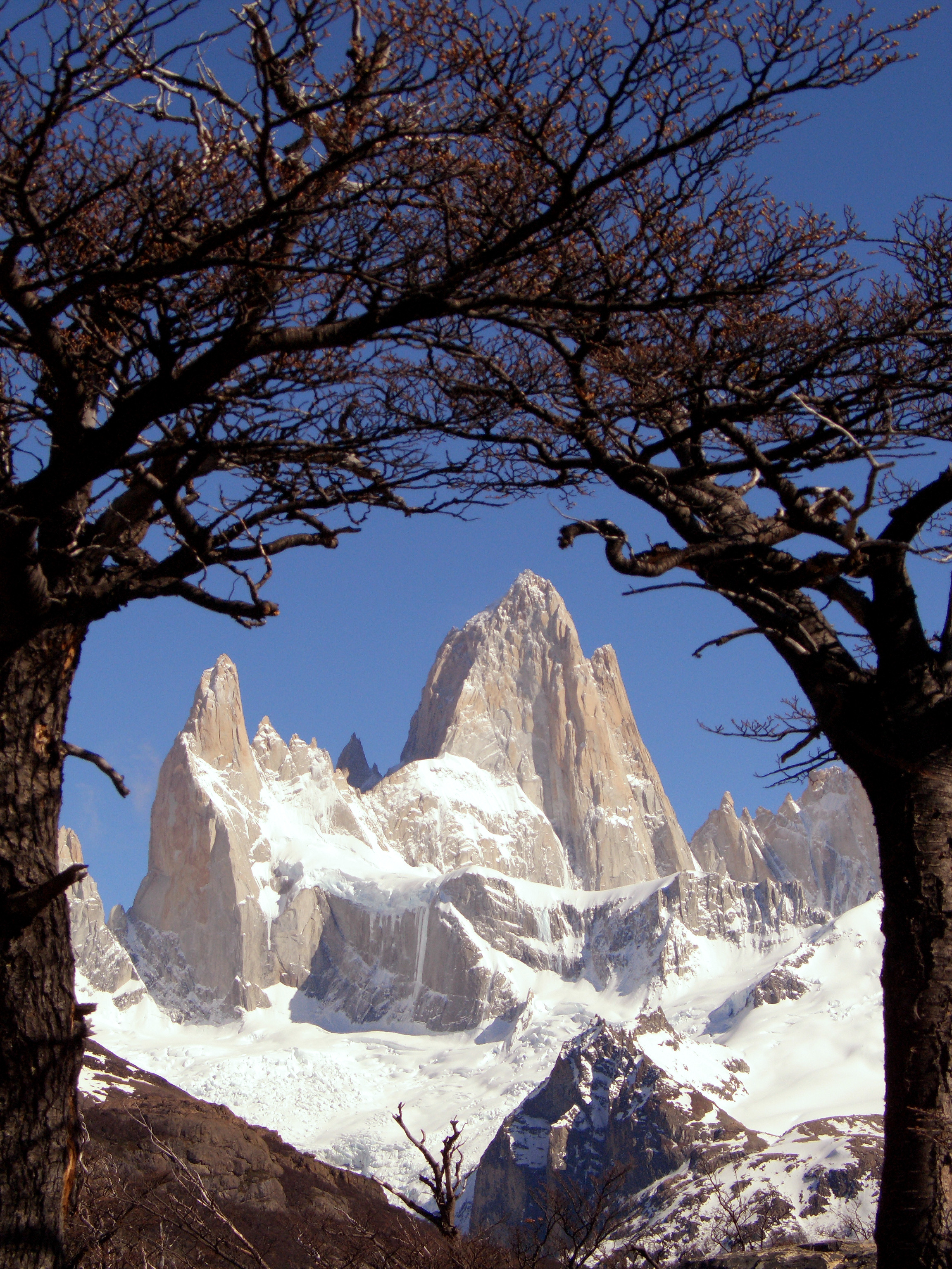 Fitz Roy mountain, El Chalten, Argentina